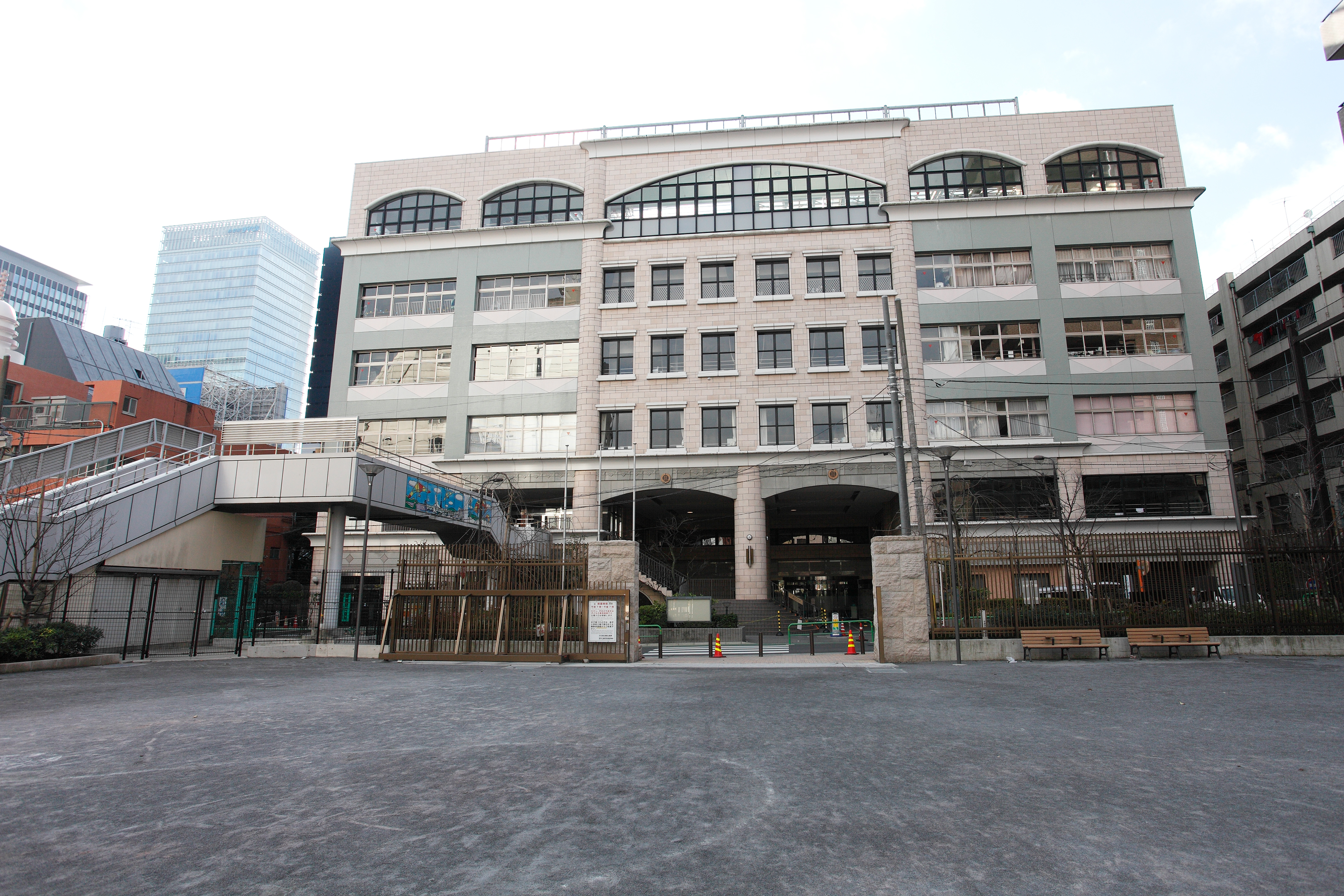 Shōhei Dōmu Kan and Hōrin Park, Sotokanda 3, Chiyoda, Tokyo